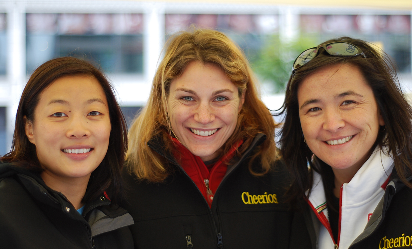 Left to right: athletes Carol Huynh, Cheryl Pounder and Vicky Sunohara.